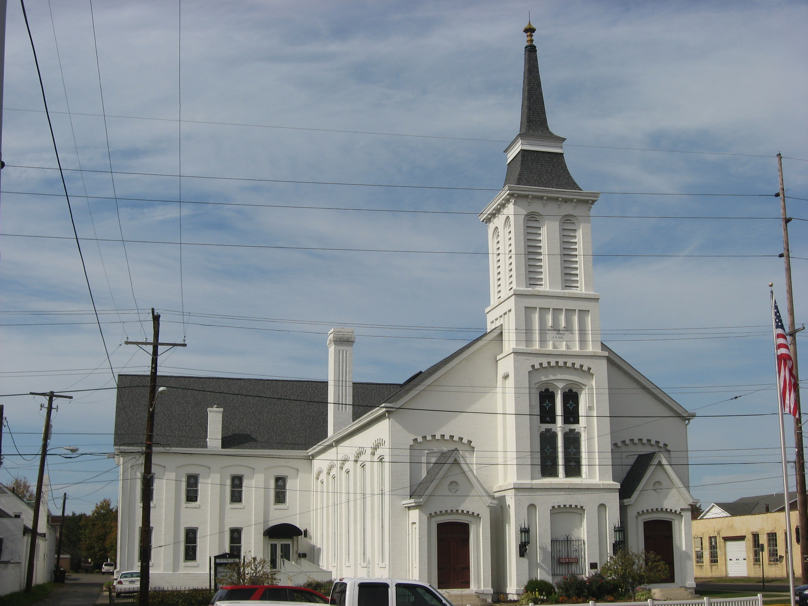 Front of the Bigelow United Methodist Church, located at 415 Washington Street in Portsmouth, Ohio, United States. Built in 1858, it is listed on the National Register of Historic Places.